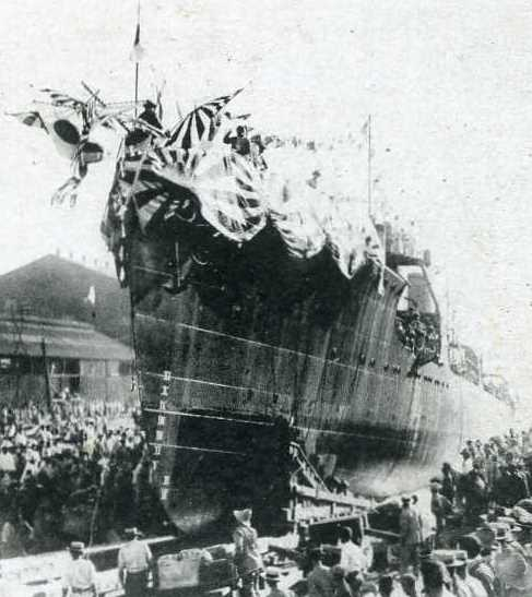 Launching of Wakatake-class destroyer Kuretake of the Imperial Japanese Navy in October, 1922